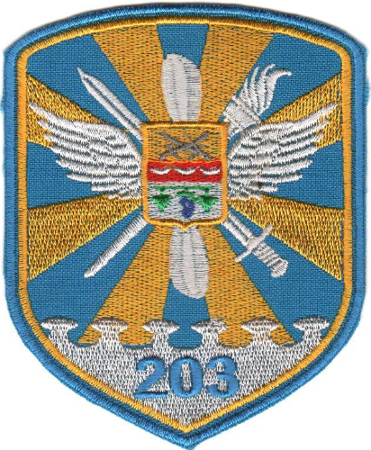 Shoulder sleeve insignia of the Ukrainian Air Force 203rd Training Aviation Brigade